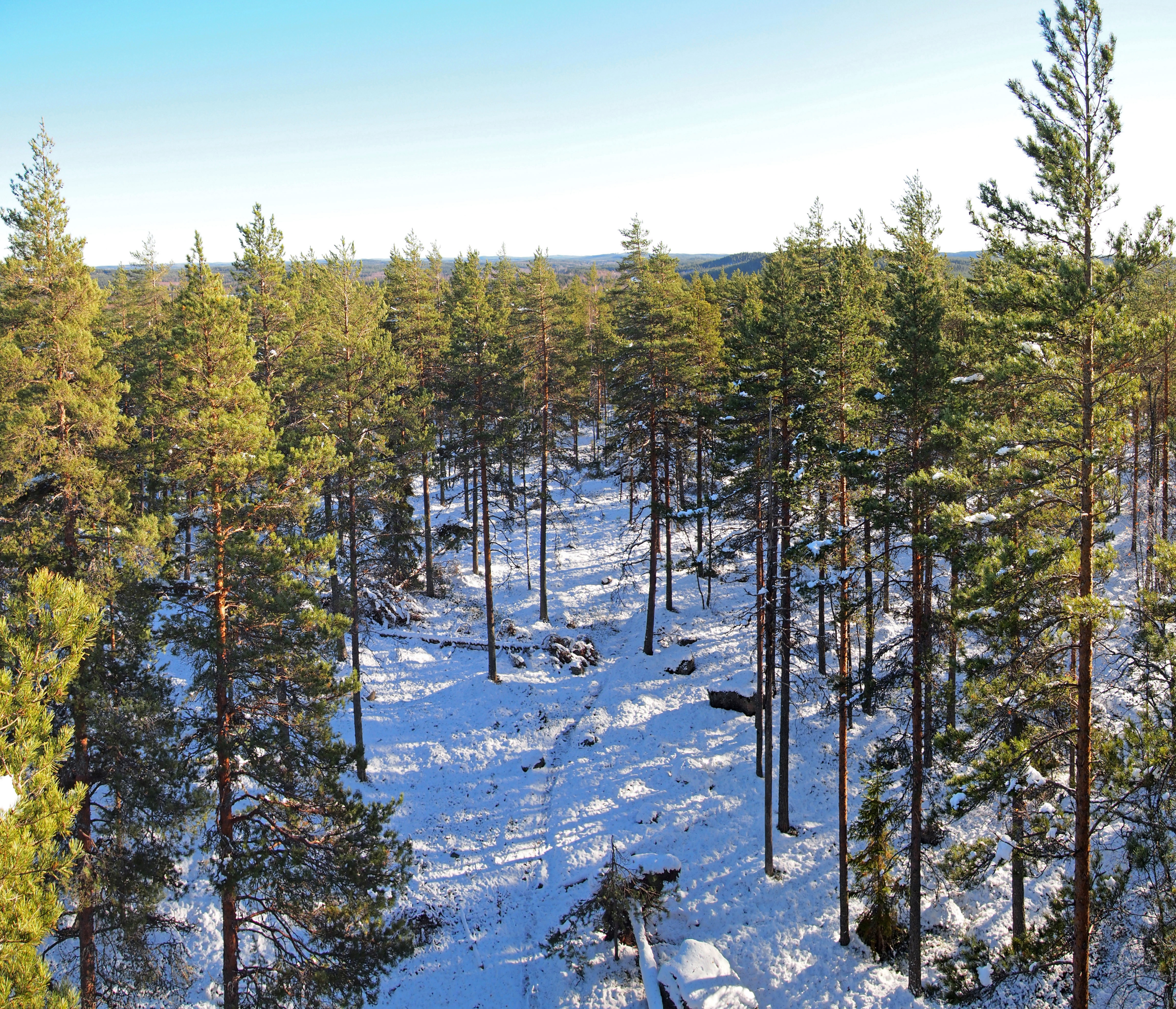 View from Kaakkovuori outlook tower, Äänekoski. This photograph was taken with a Olympus E-PL1.